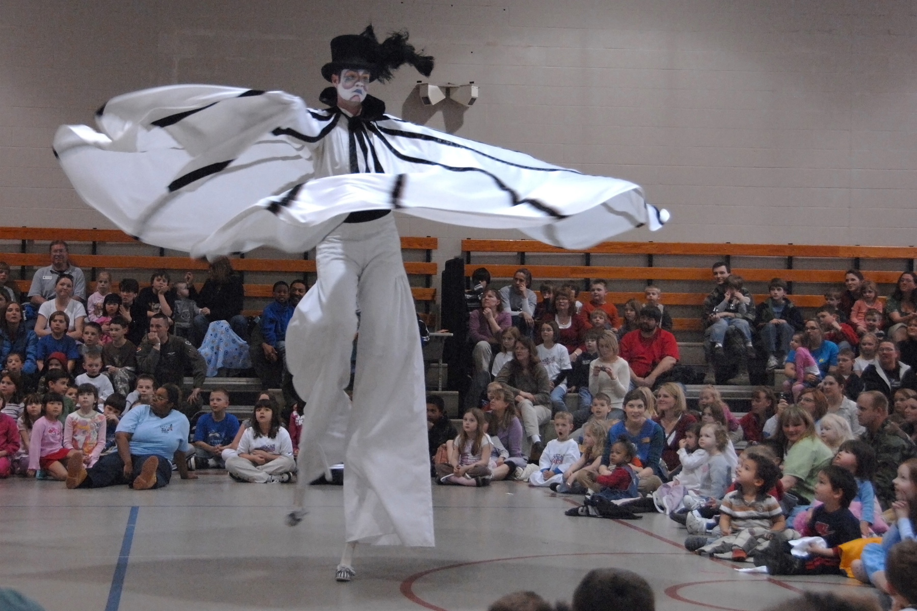 Cirque du Soleil performer ‘Creator’ wows Offuttchildren with his stilt-walking twirling skills. The Cirque de Soleil’s Saltimbanco touring troupe came to Offutt as part of a special ‘Month of the Military Child’ event during their regular promotional stops for their show in Omaha.